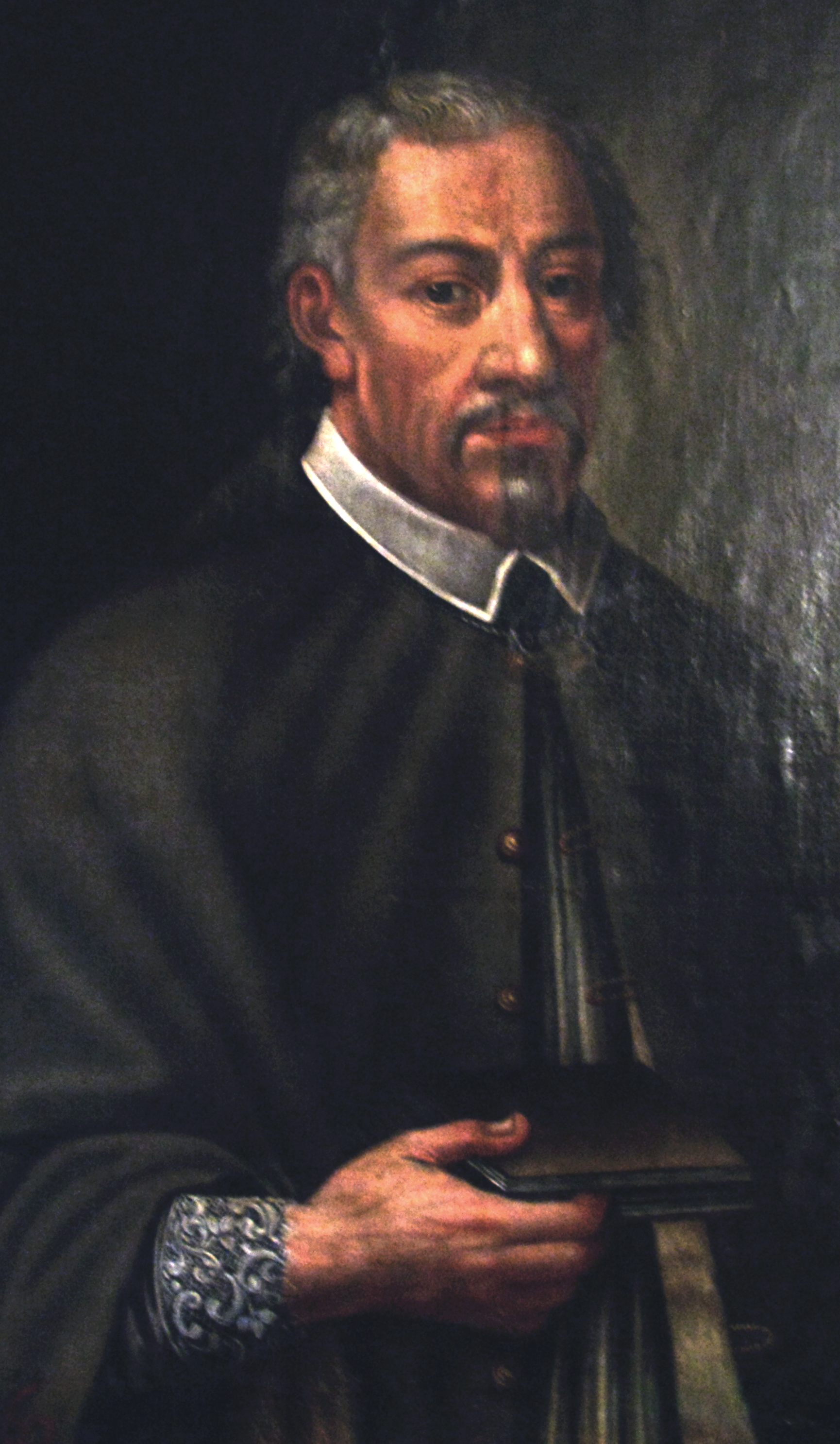 Jan Długosz